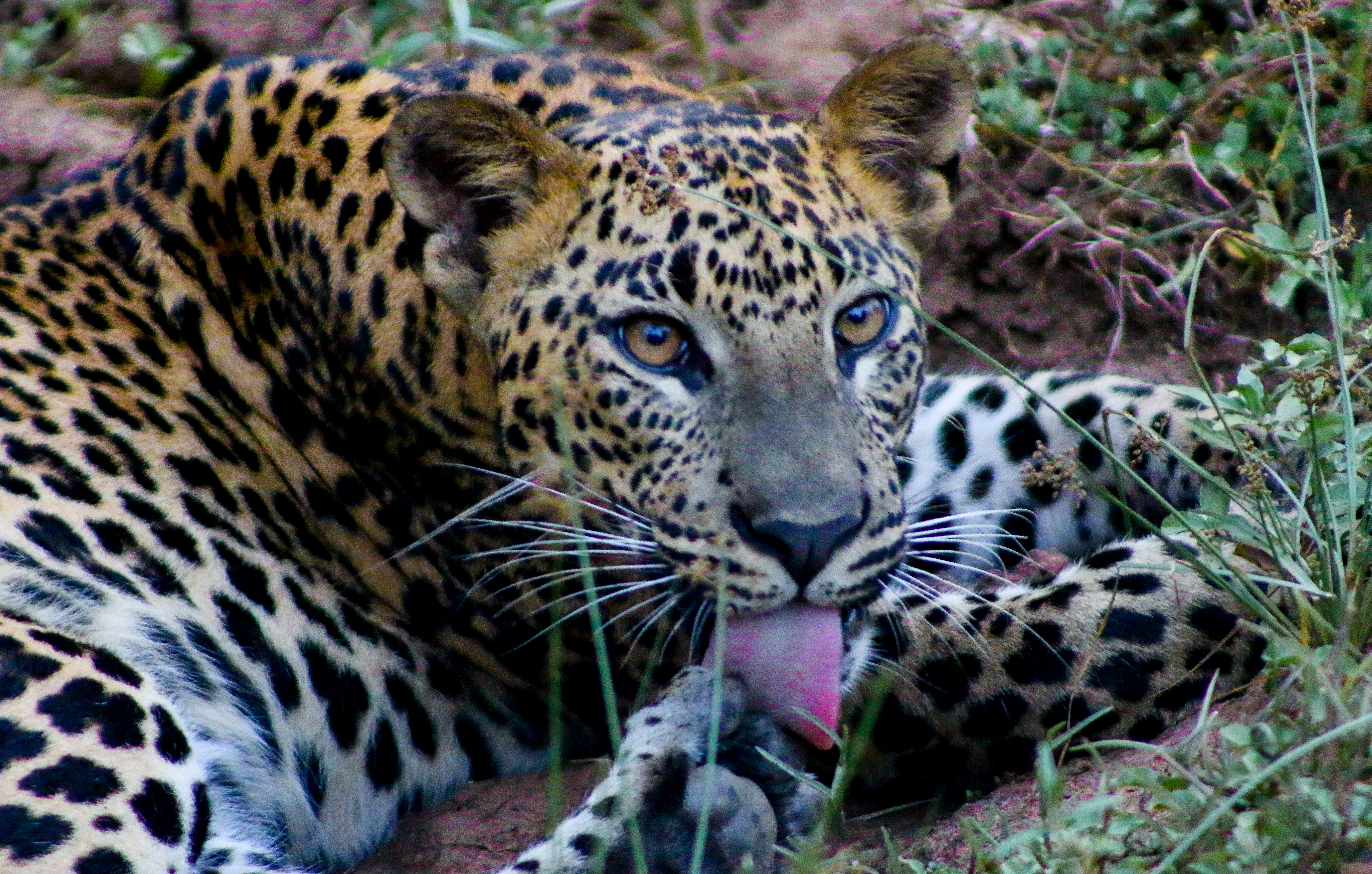 This photo was taken in Yala National Park Sri Lanka. Currently Sri Lankan Leopard(Panthera pardus kotiya) is endangered due to habitat loss and poaching. Yala National Park is the worlds number one place to spot a leopard due to its high density of leopards.